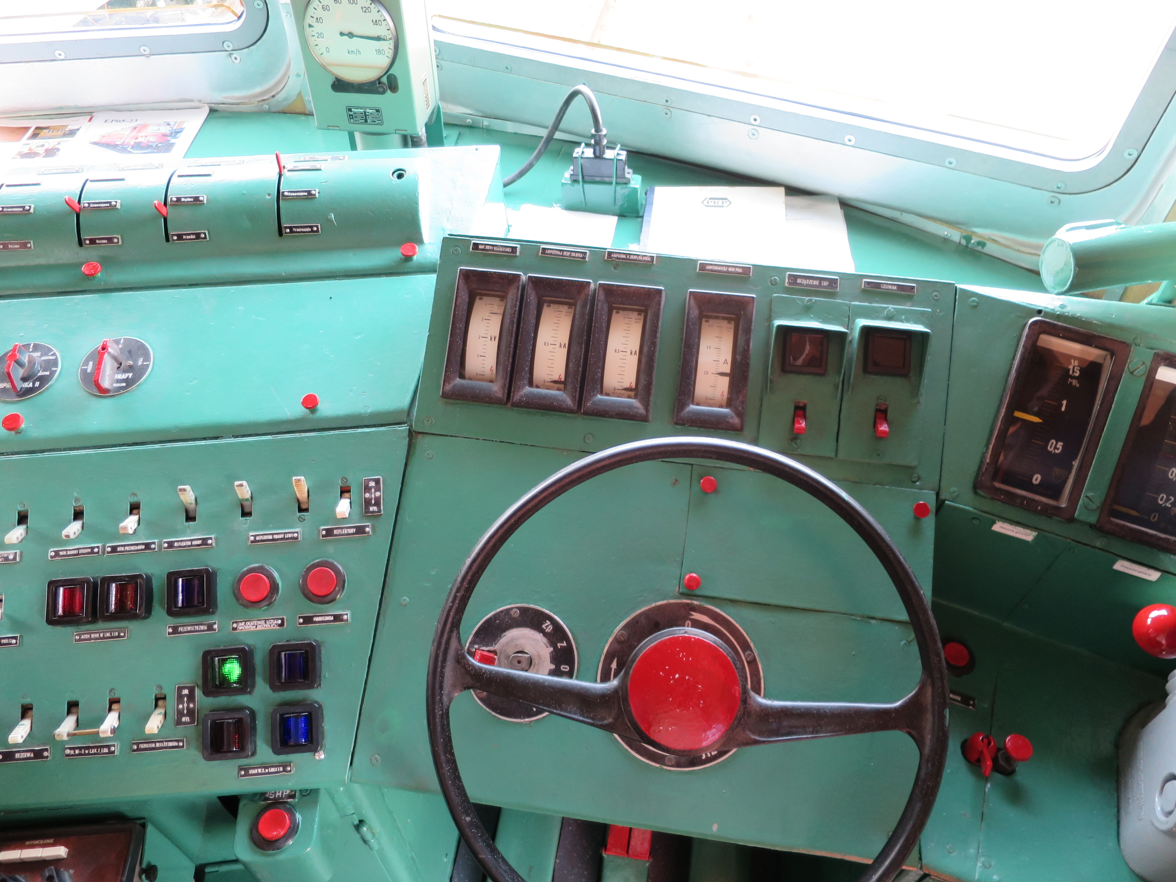 The making of this document was supported by Wikimedia Polska Association, within Wikigrant no. WG 2017-44. EP05-23